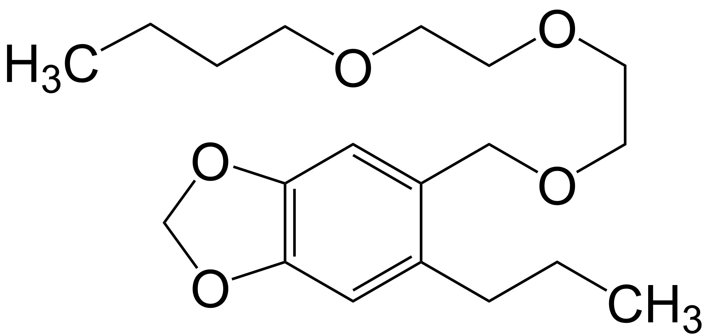 Piperonyl butoxide 2D molecular structure